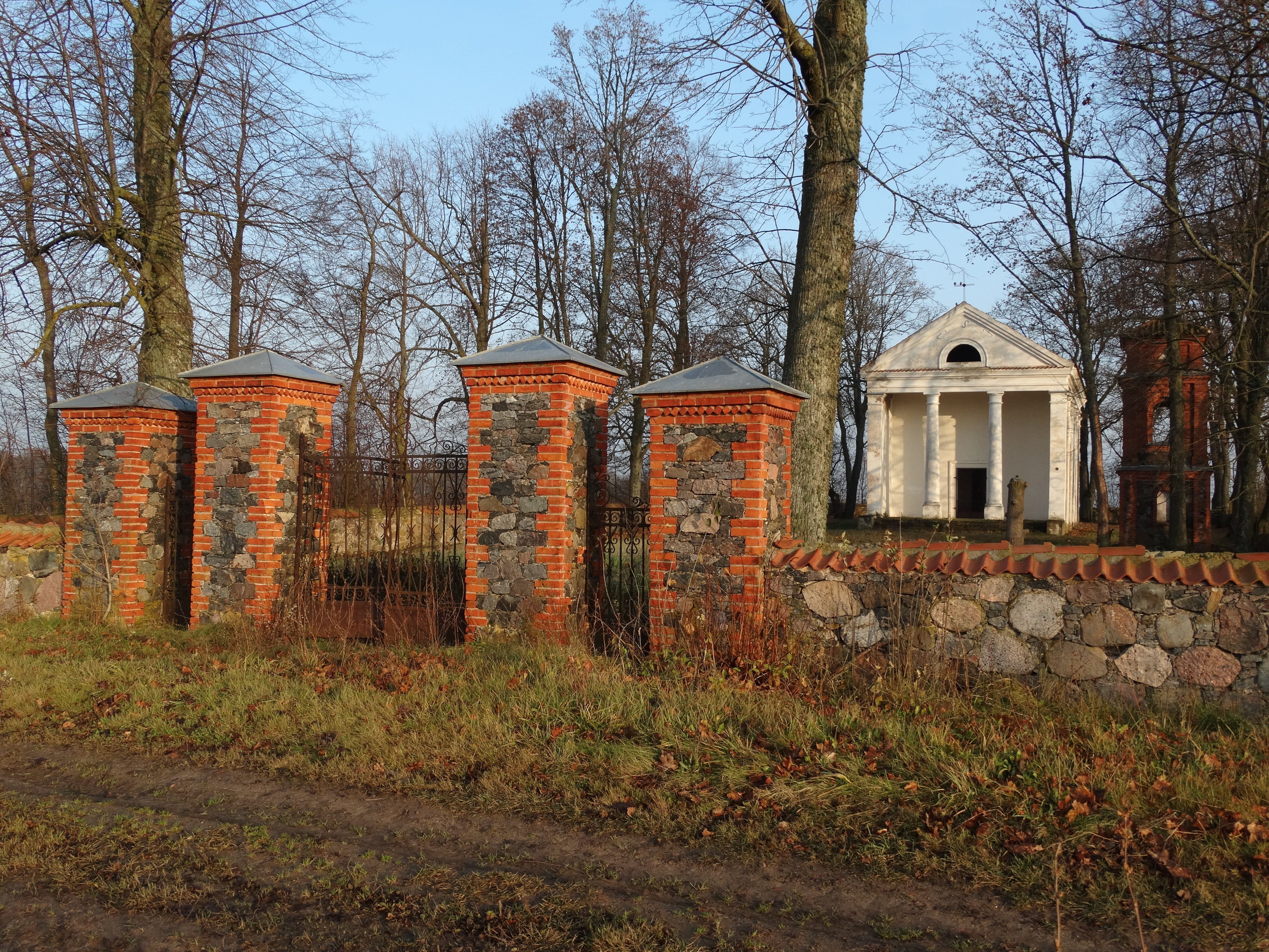 Chapel in Niurkoniai (by Lavėnai), Pasvalys district, Lithuania